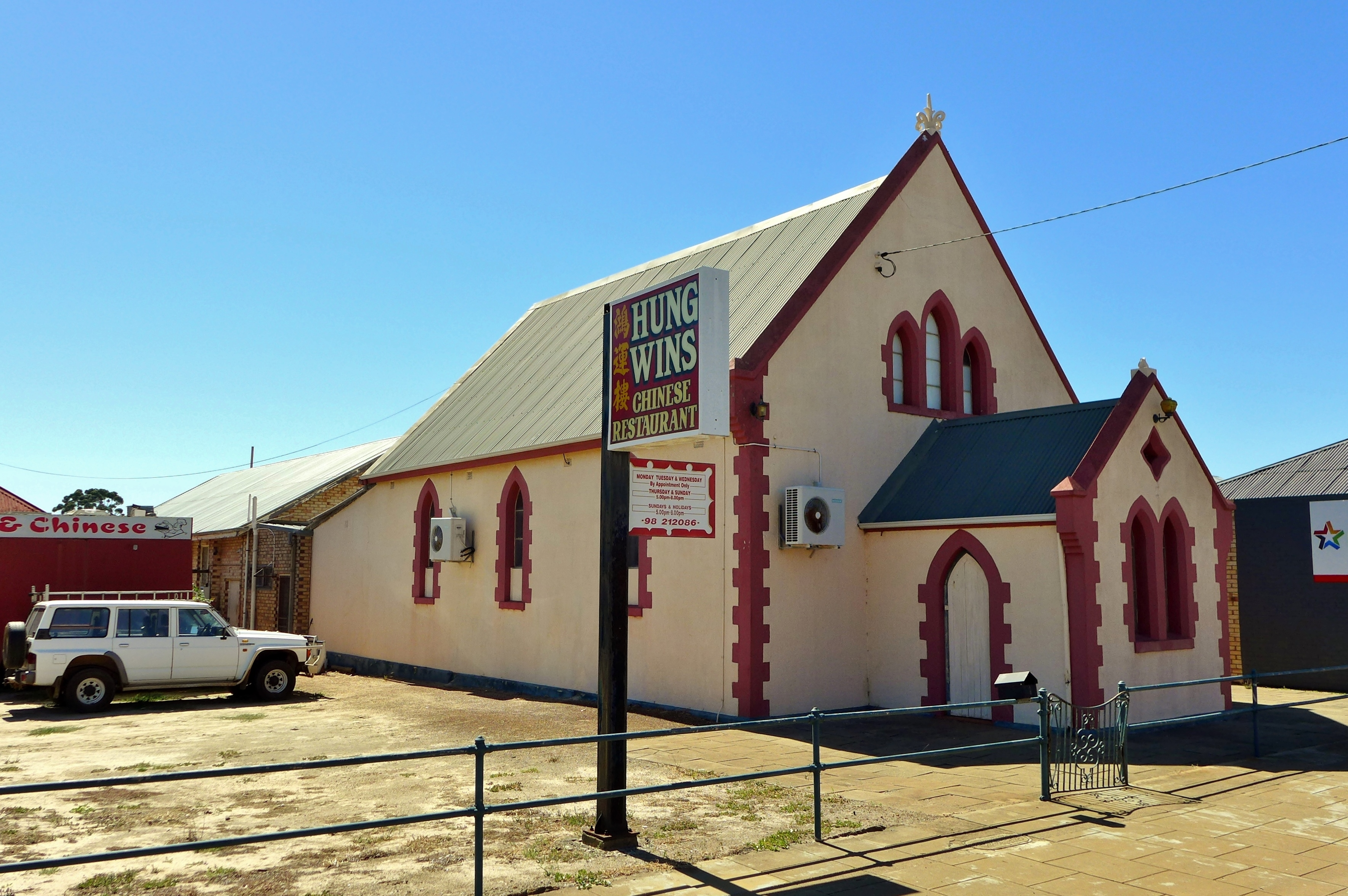 View of Hung Wins Chinese Restaurant (formerly a Baptist Church), Carew Street, Katanning, Western Australia